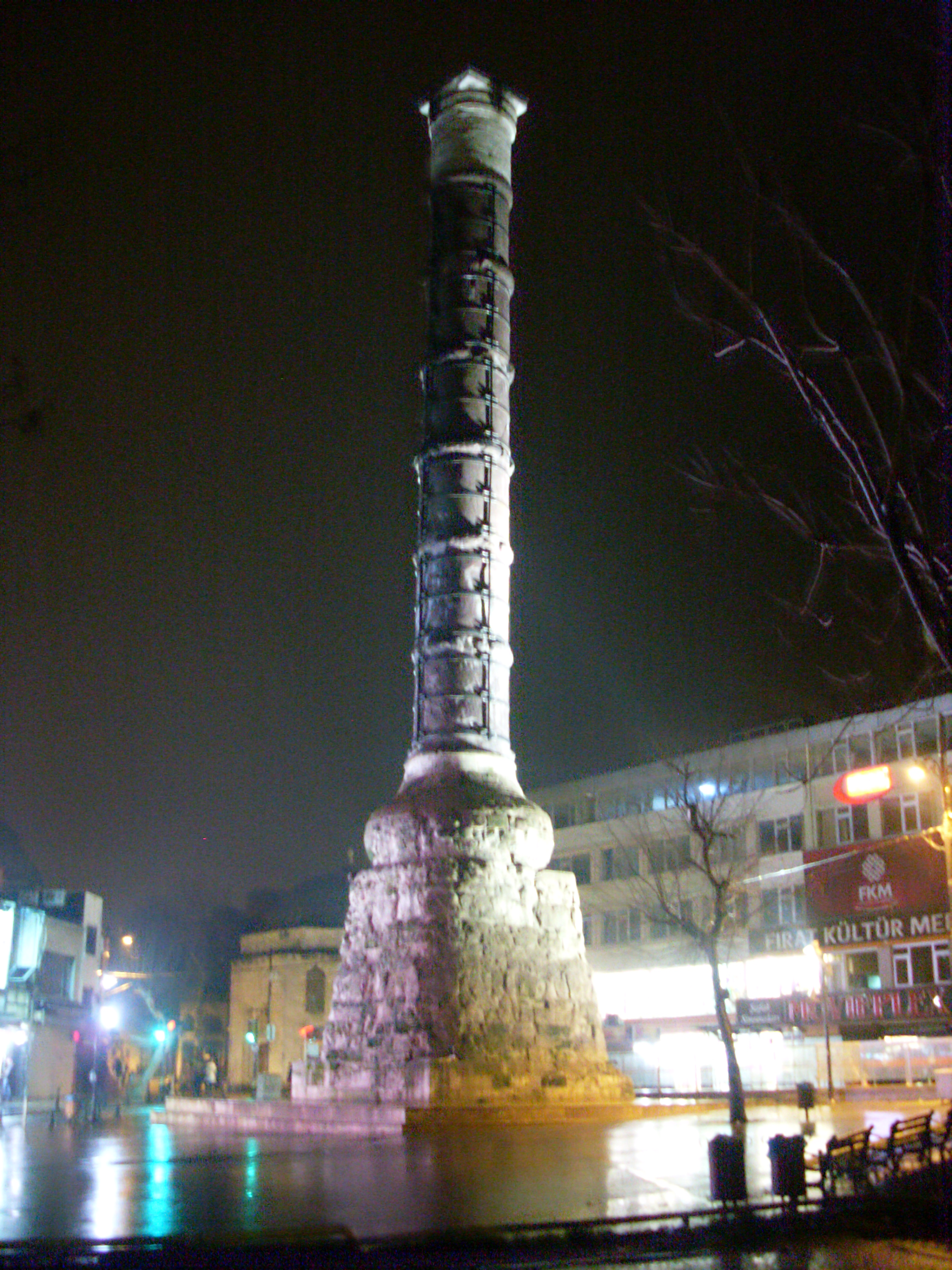 İstanbul - Column of Constantine r1 - Feb 2013